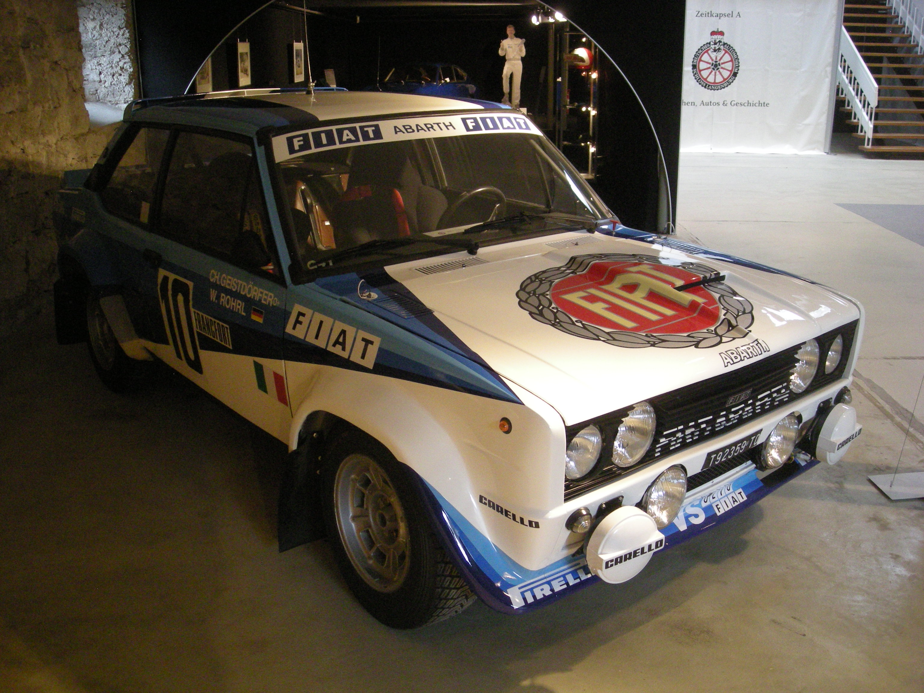 A 1980 Fiat 131 Rallye inside the Deutsches Automuseum in Langenburg, Baden-Württemberg (Germany).